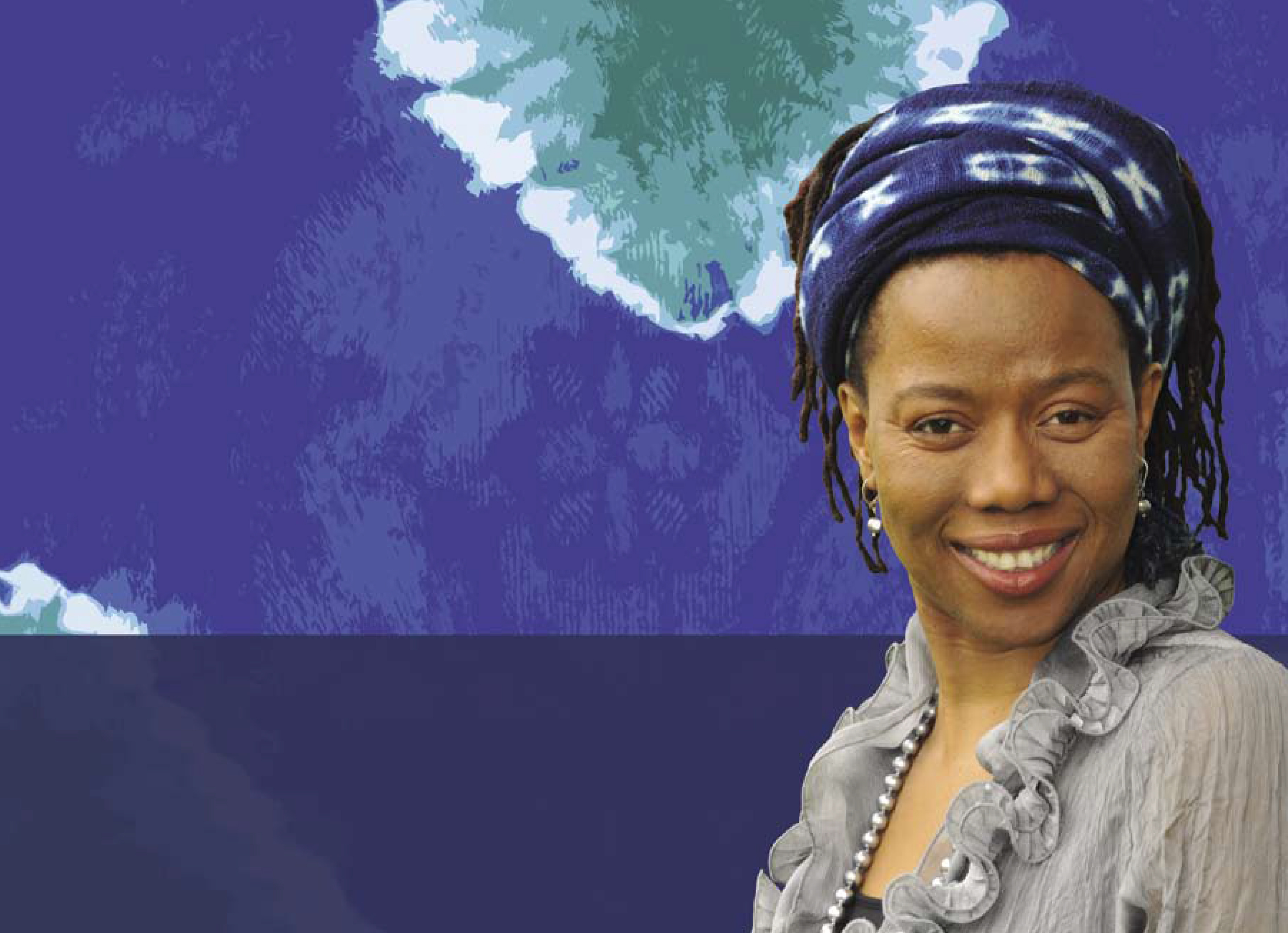 Voice, Power and Soul - Portraits of African Feminists